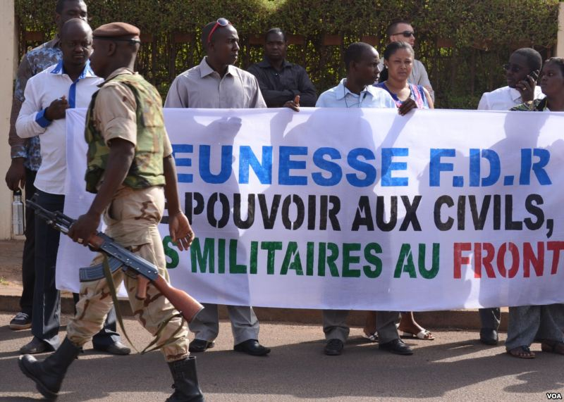 A soldier walks past Malians protesting the junta's arrest of several prominent figures in April